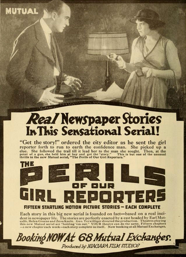 Advertisement in Moving Picture World'